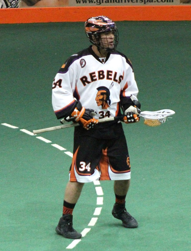 This photo was taken by Devan Mighton during the 2015 OJBLL season.